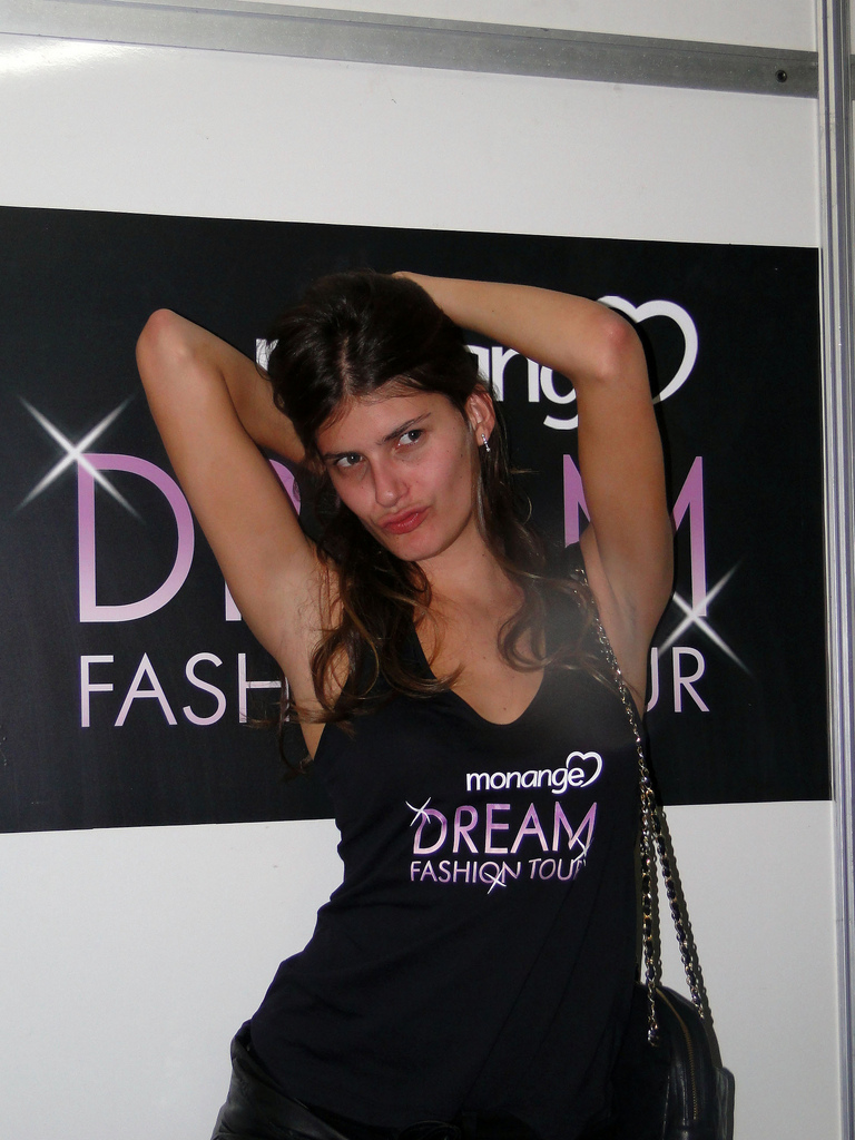 Backstage Monange Dream Fashion Tour 2010, Rio de Janeiro.